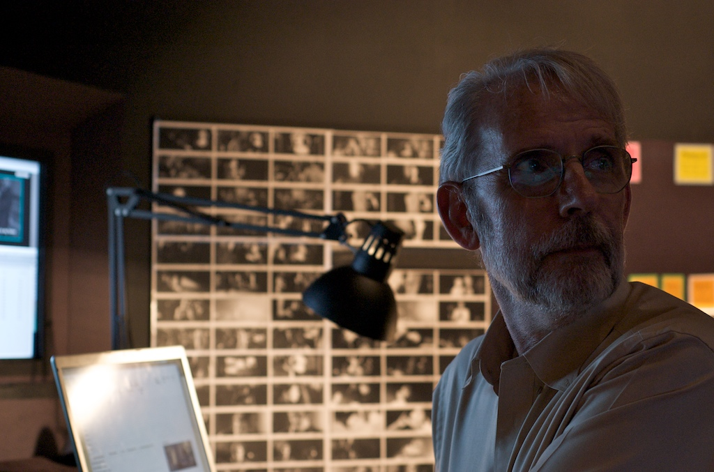 Walter Murch working on Tetro in Buenos Aires, Argentina taken by Beatrice Murch